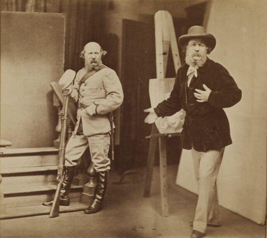 Self-portrait of O. G. Rejlander. The photo on the easel is The Ginx's Baby, Rejlander's most known work. The uniform is of Artists Rifles, the steps behind the rifle butt were a common prop in Rejlander's studio portraits.